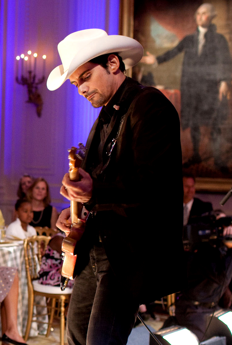 Country musician Brad Paisley performs at an event, hosted by President Barack Obama and First Lady Michelle Obama, celebrating country music in the East Room of the White House on July 21, 2009.